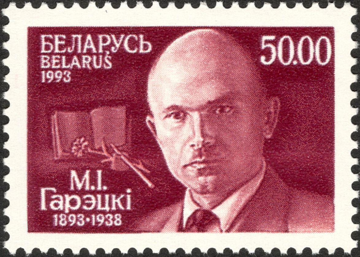 Stamp of Belarus